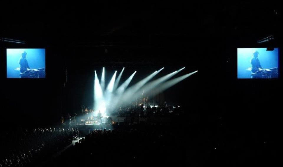 Tournee 2012